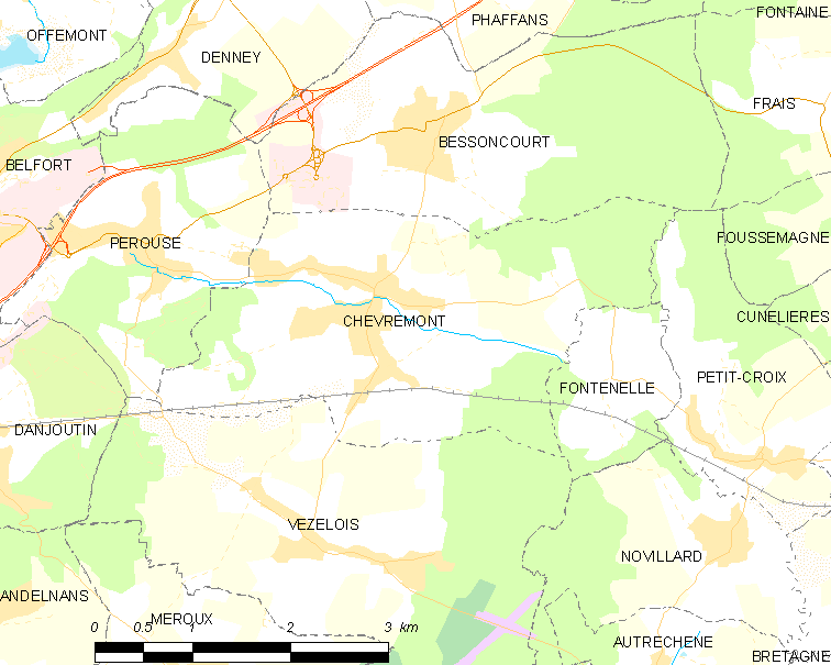 Map of French municipality Chèvremont